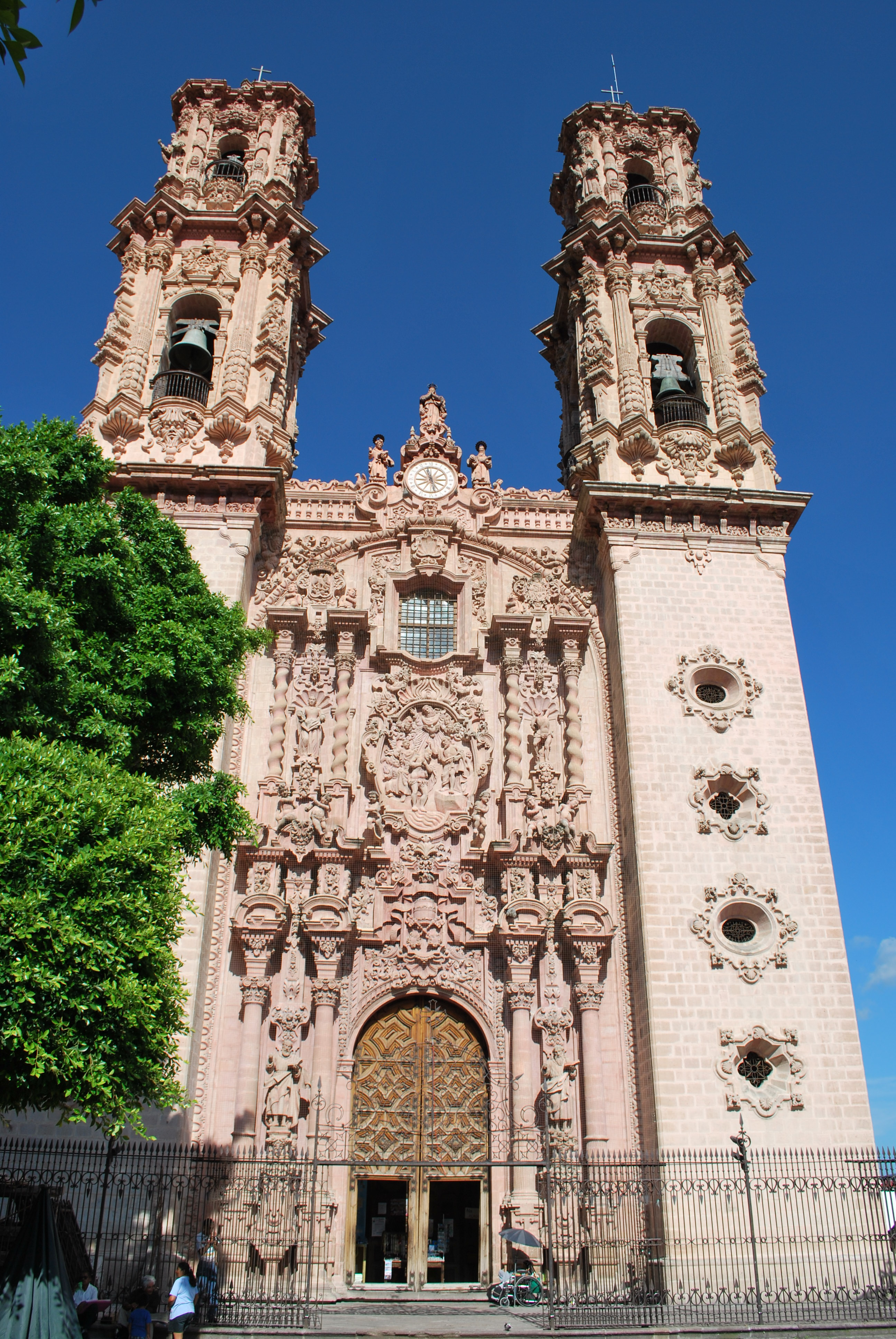 Facade of the Santa Prisca Church in Taxco de Alarcón, Guerrero, Mexico